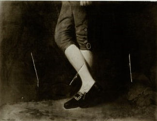 Photograph of the damage caused to the painting 'Master Thornhill' in Birmingham Art Gallery in 1914 by suffragette Bertha Rylands